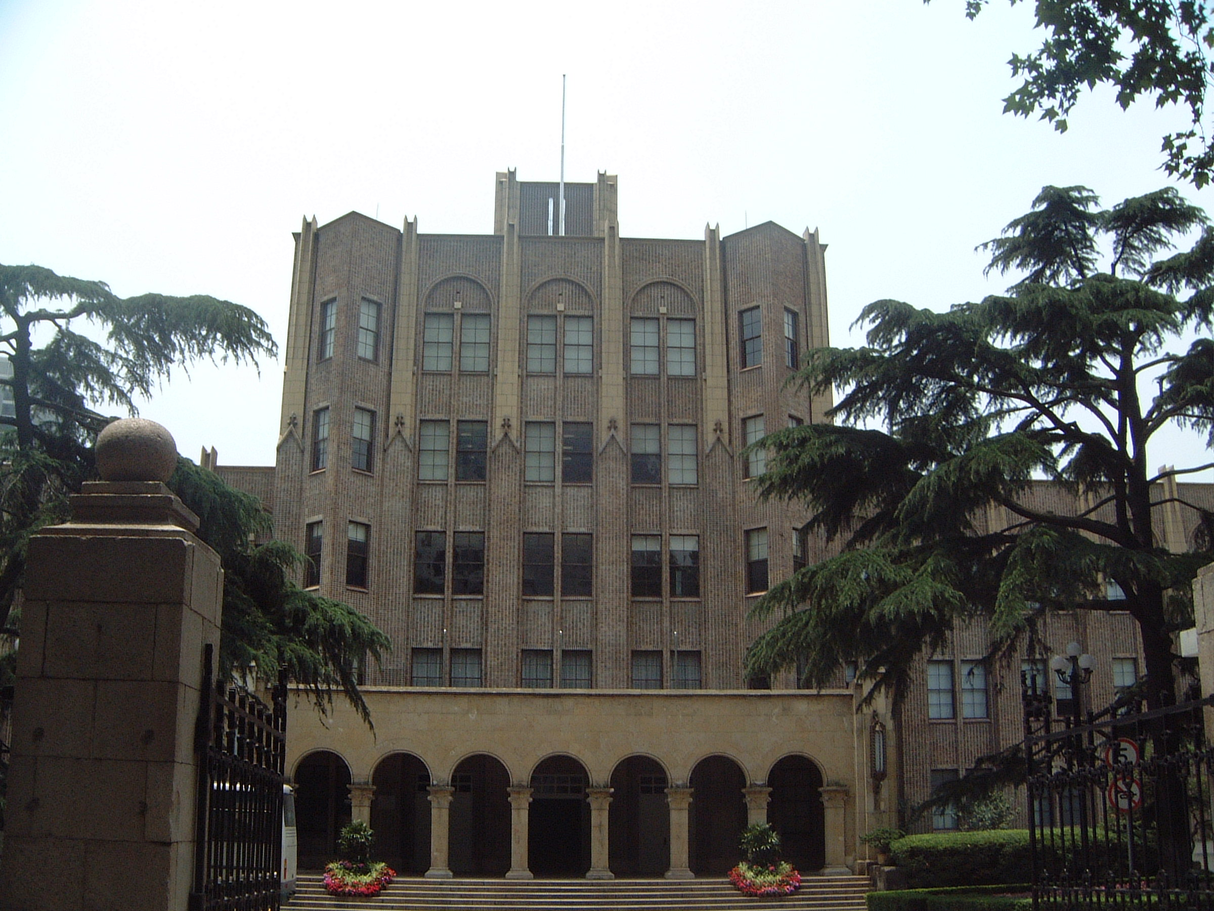 China Academy of Sciences - Institute of Neuroscience 中国科学院神经科学研究所 岳阳路320号